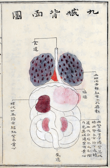 Nine Organs in Yamawaki Tōyō's "Book of Organs" (Zōshi), 1754